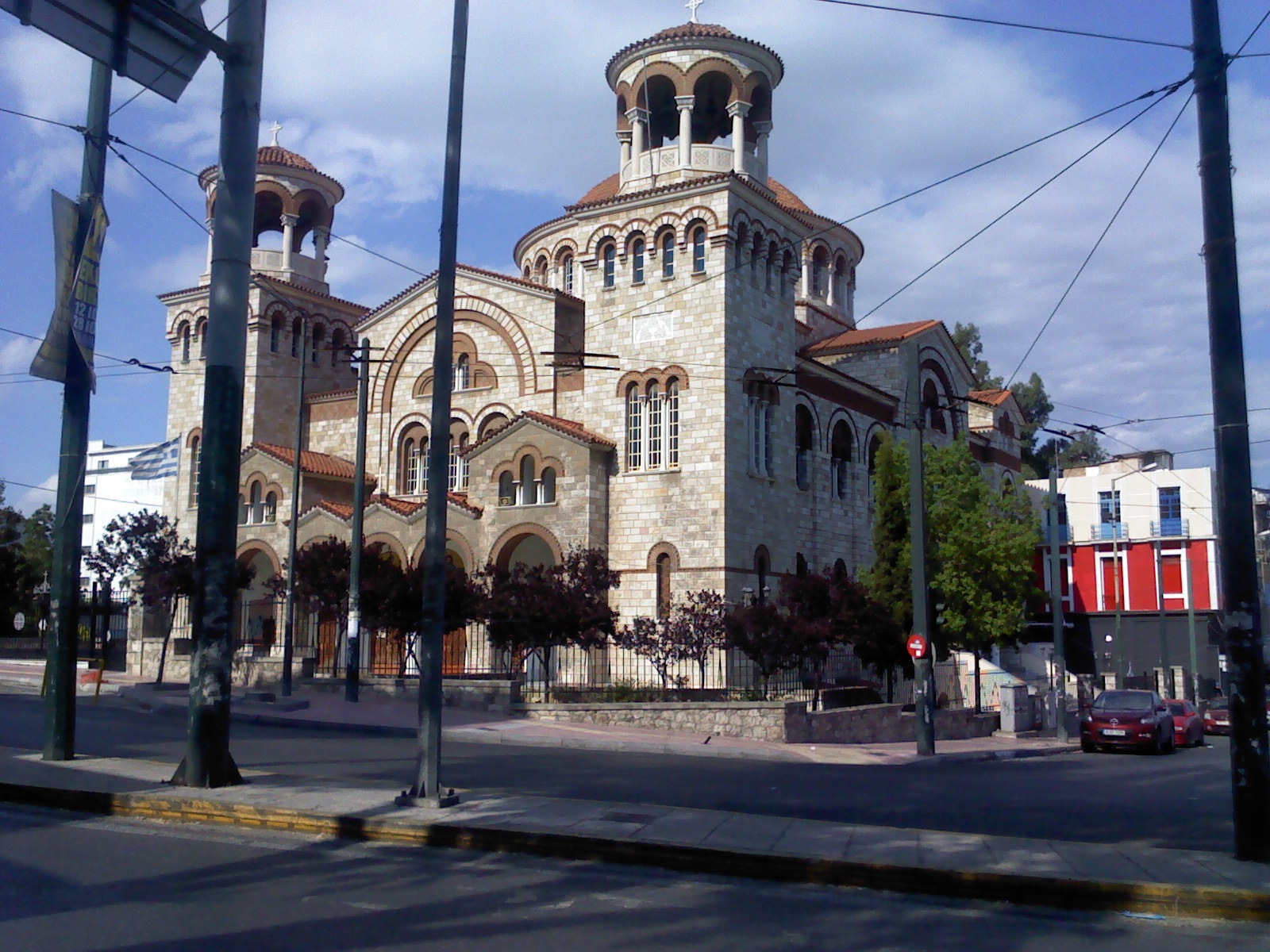 Agios Dionisios Pirea